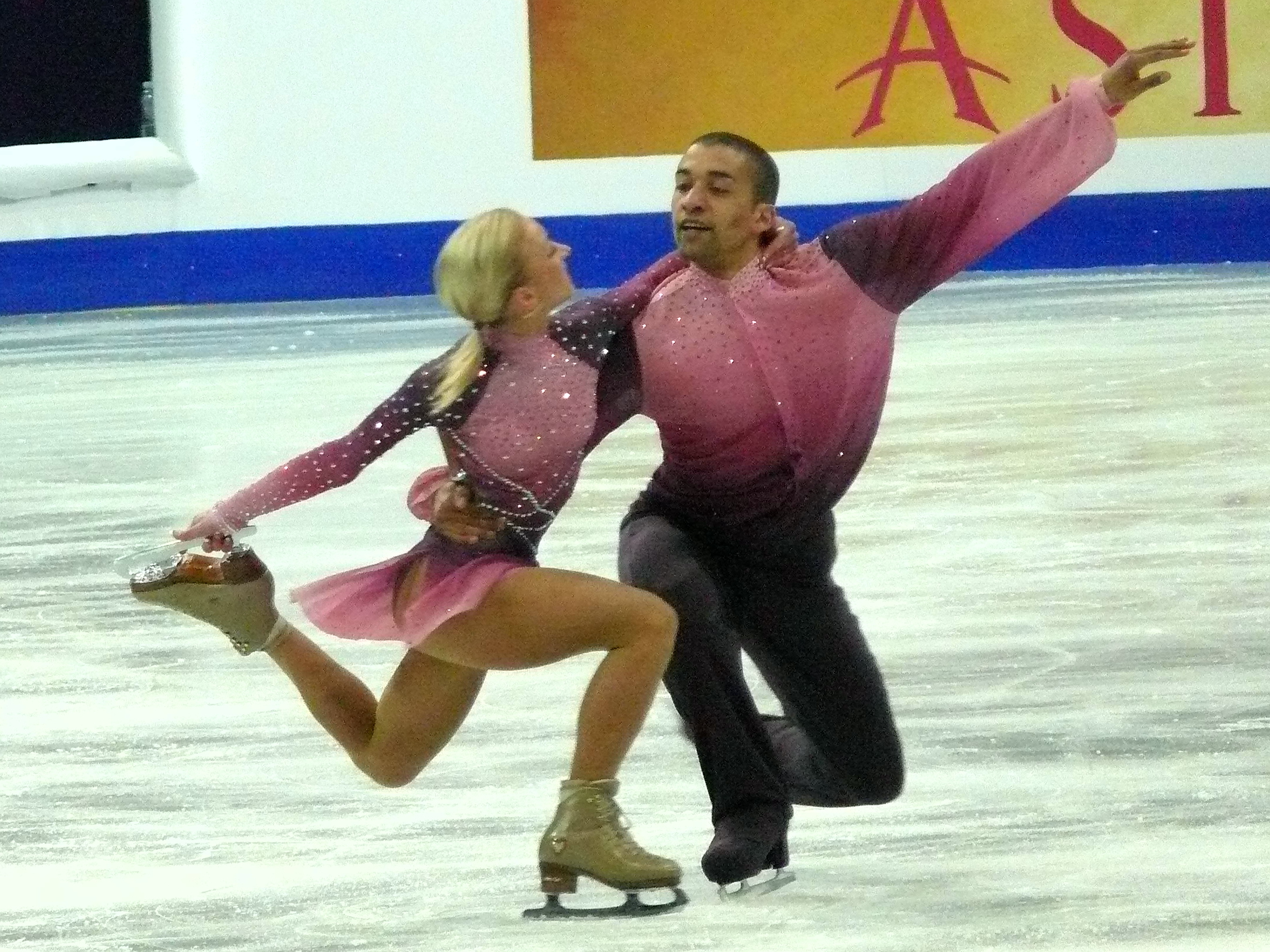 Aliona Savchenko and Robin Szolkowy (GER) at their free program at the World Championships in Figure Skating in Göteborg (SWE)